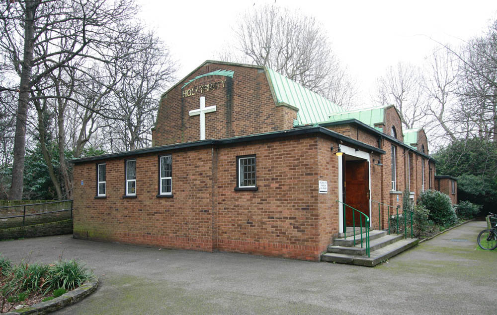 Holy Trinity, Rotherhithe Street, Rotherhithe